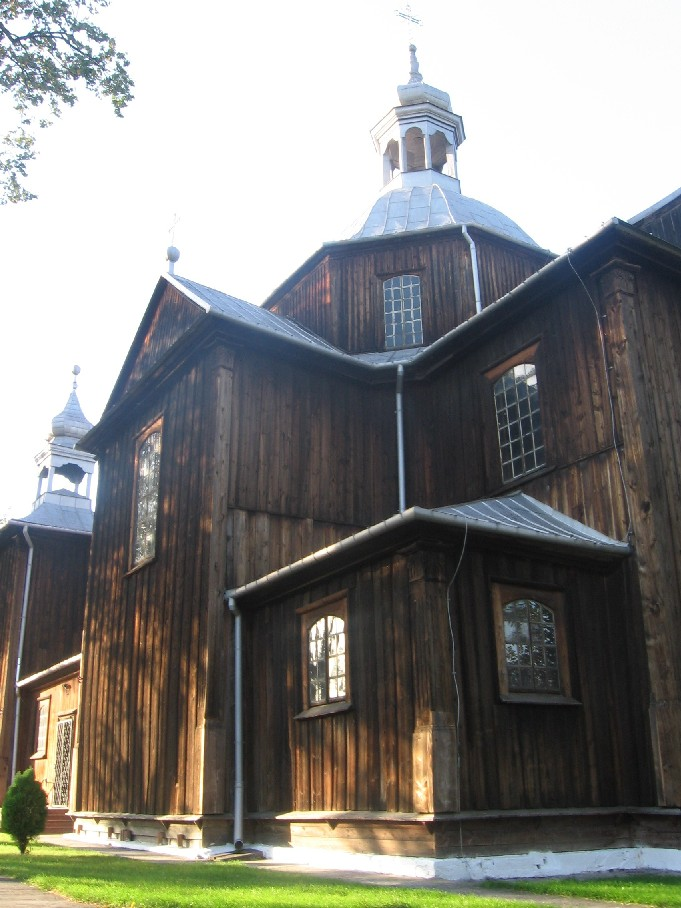 Authors: A. K. S. M. D. Ciesielscy Source; own work Descriptions: Church in Mnichów Date: 2006-09-24